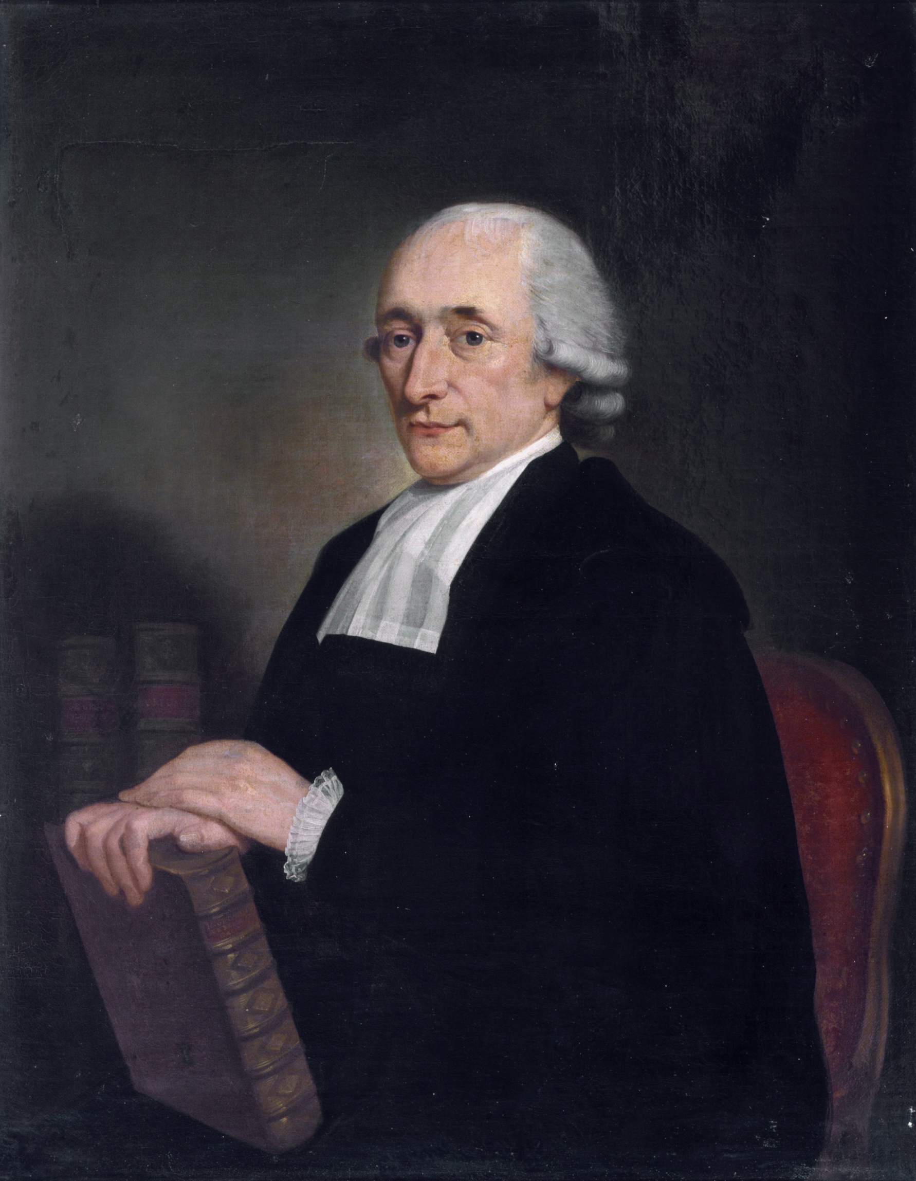 Hendrik Constantijn Cras (1739-1820) oil on canvas 80 x 62.5 cm 1789